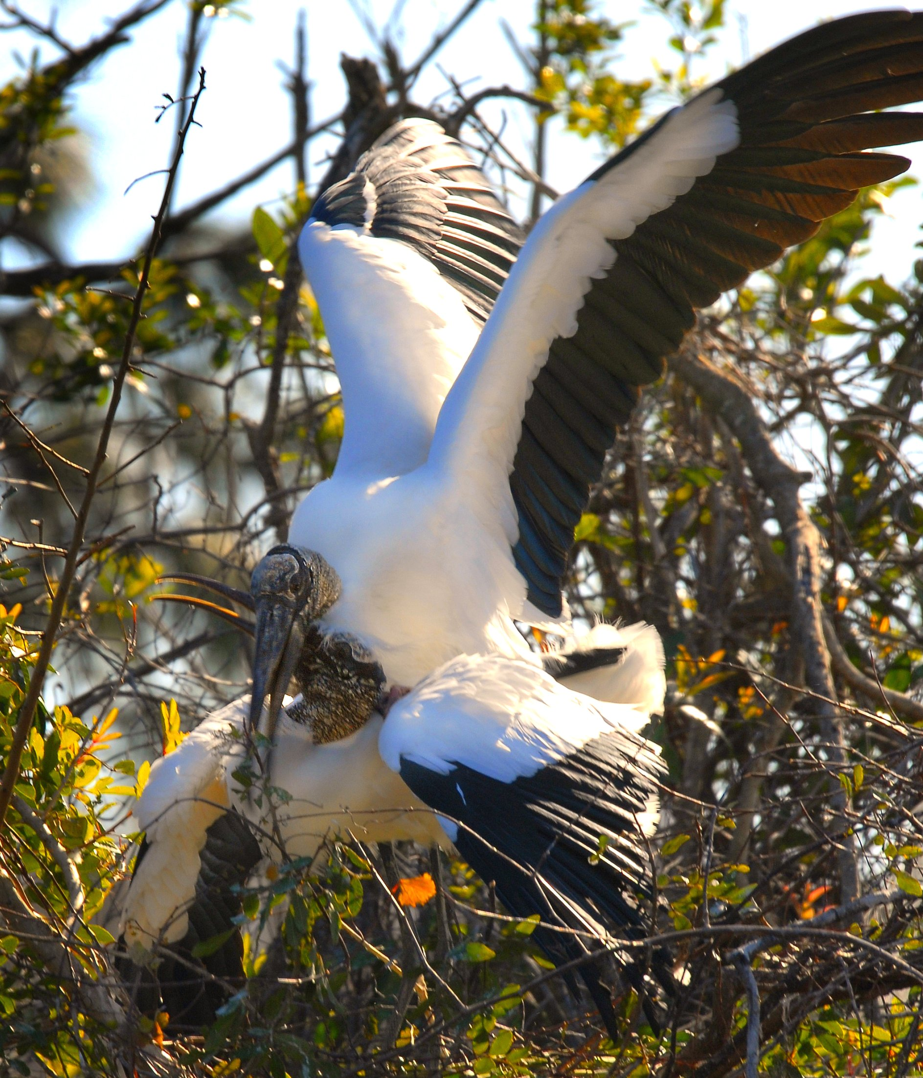 Stork Love again... Gatorland's rockin' :)